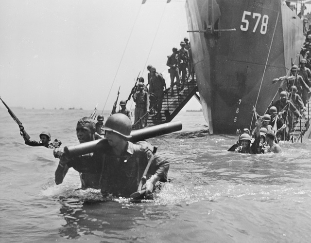 AWM image 017591. US Army soldiers disembark into deep water during the landing at Morotai.